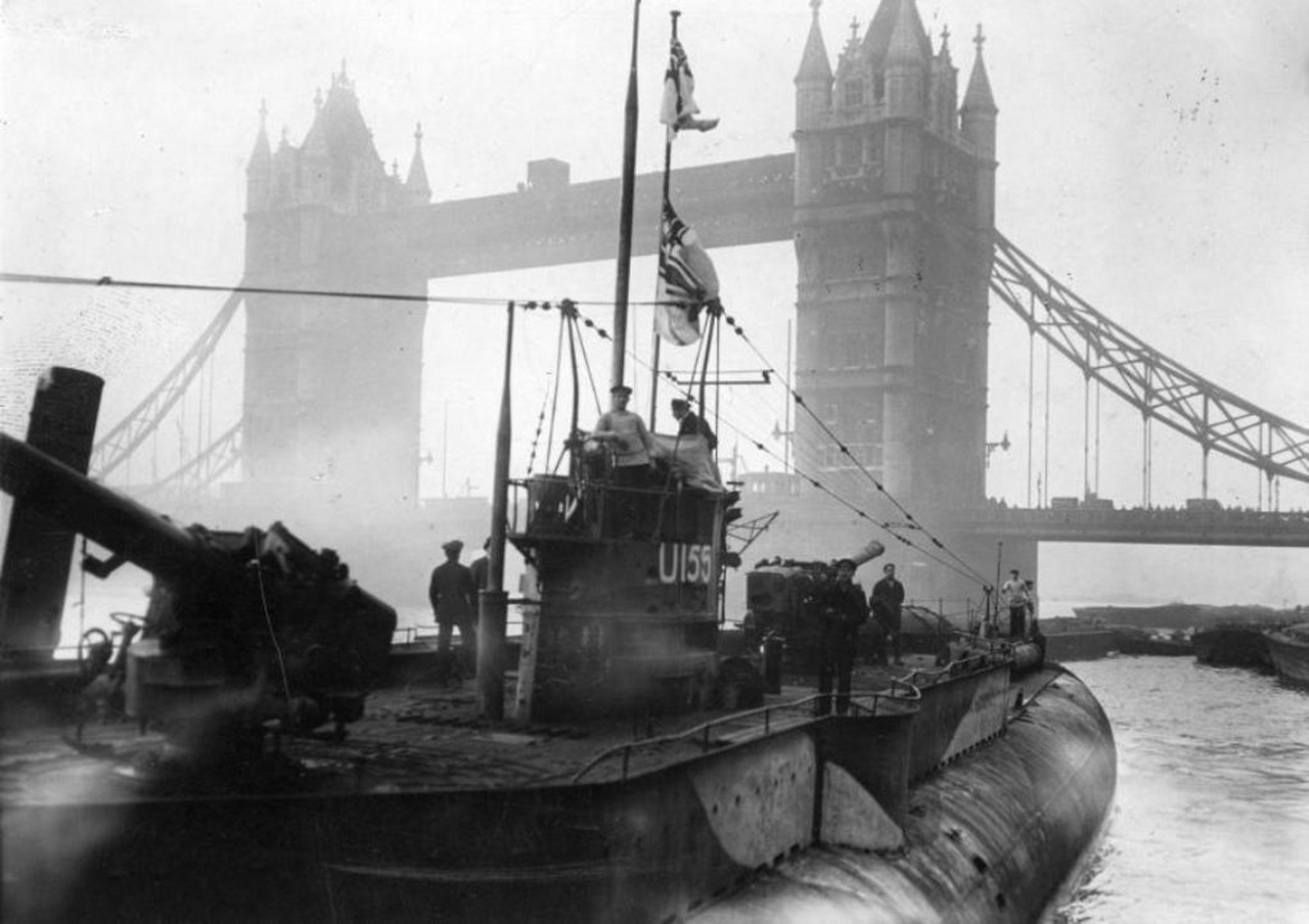 Uboat 155 exhibited in London after World War I.